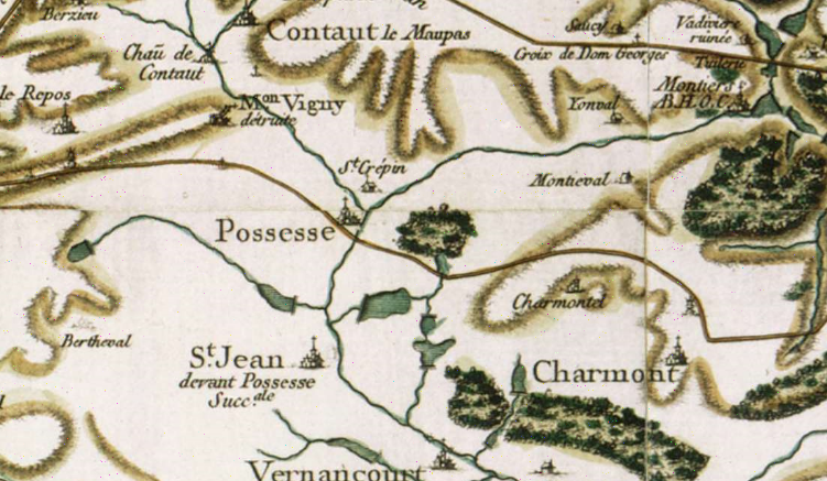 Map of Cassini of Possesse, Marne